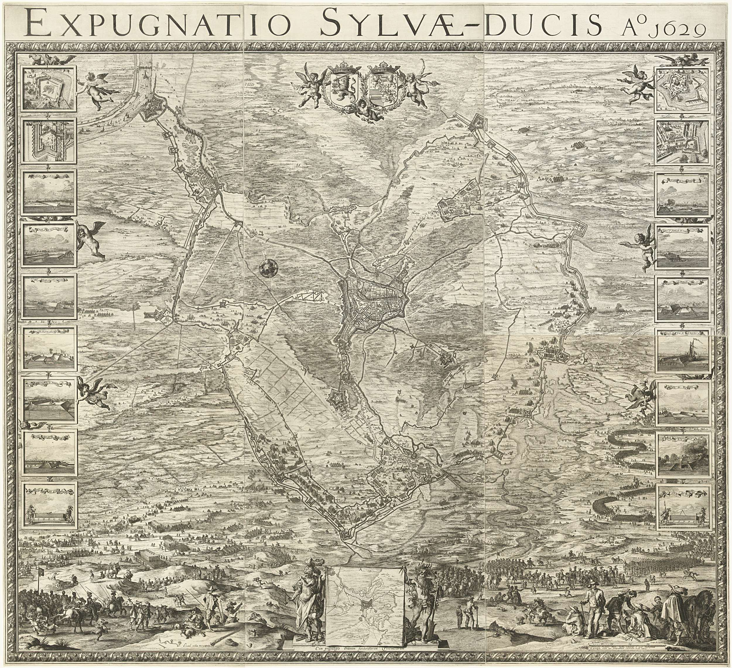 map of the siege of 's-Hertogenbosch in 1629 by Frederick Henry of Orange